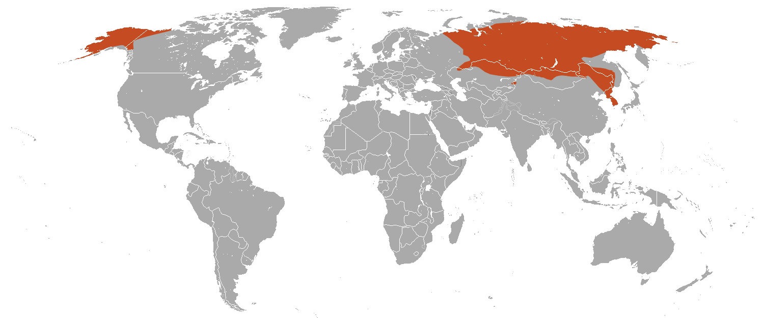 Tundra Shrew (Sorex tundrensis) range